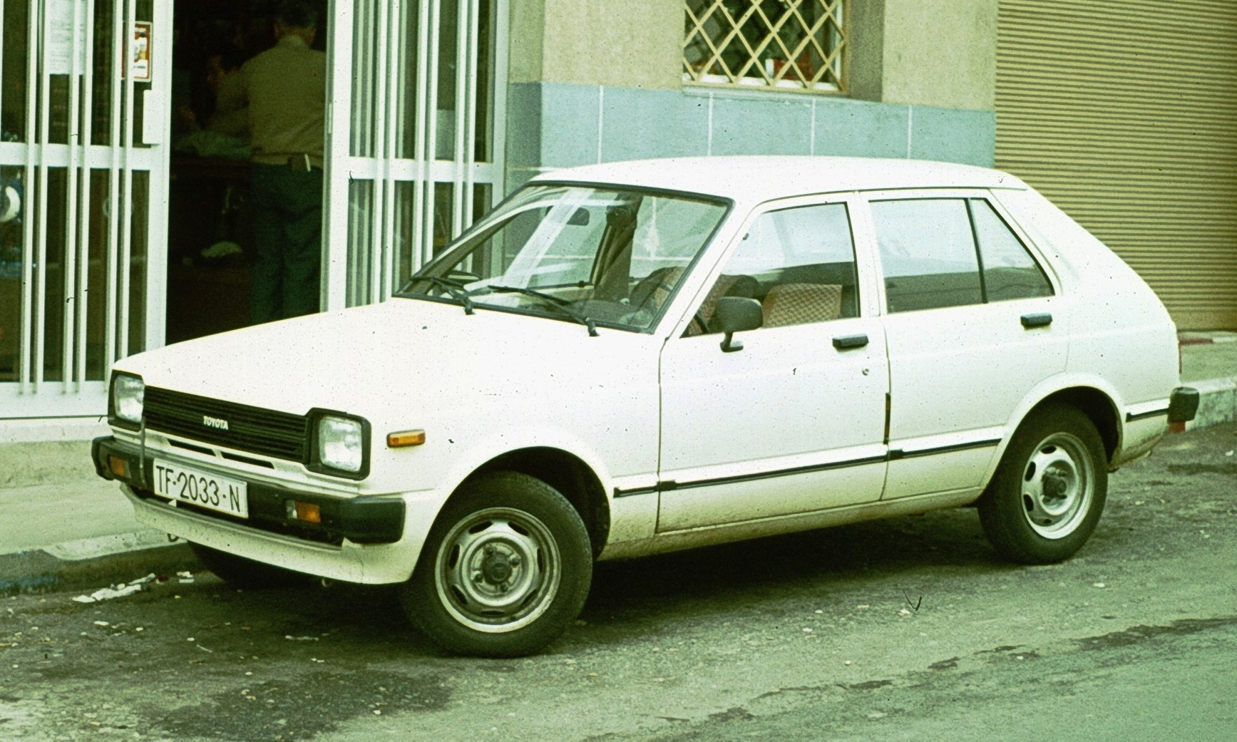 1981-1982 Toyota Starlet 5 door Hatchback (KP60)